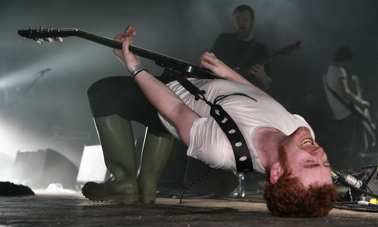 And So I Watch You From Afar playing on the main stage at the Glasgowbury Music Festival 2009.